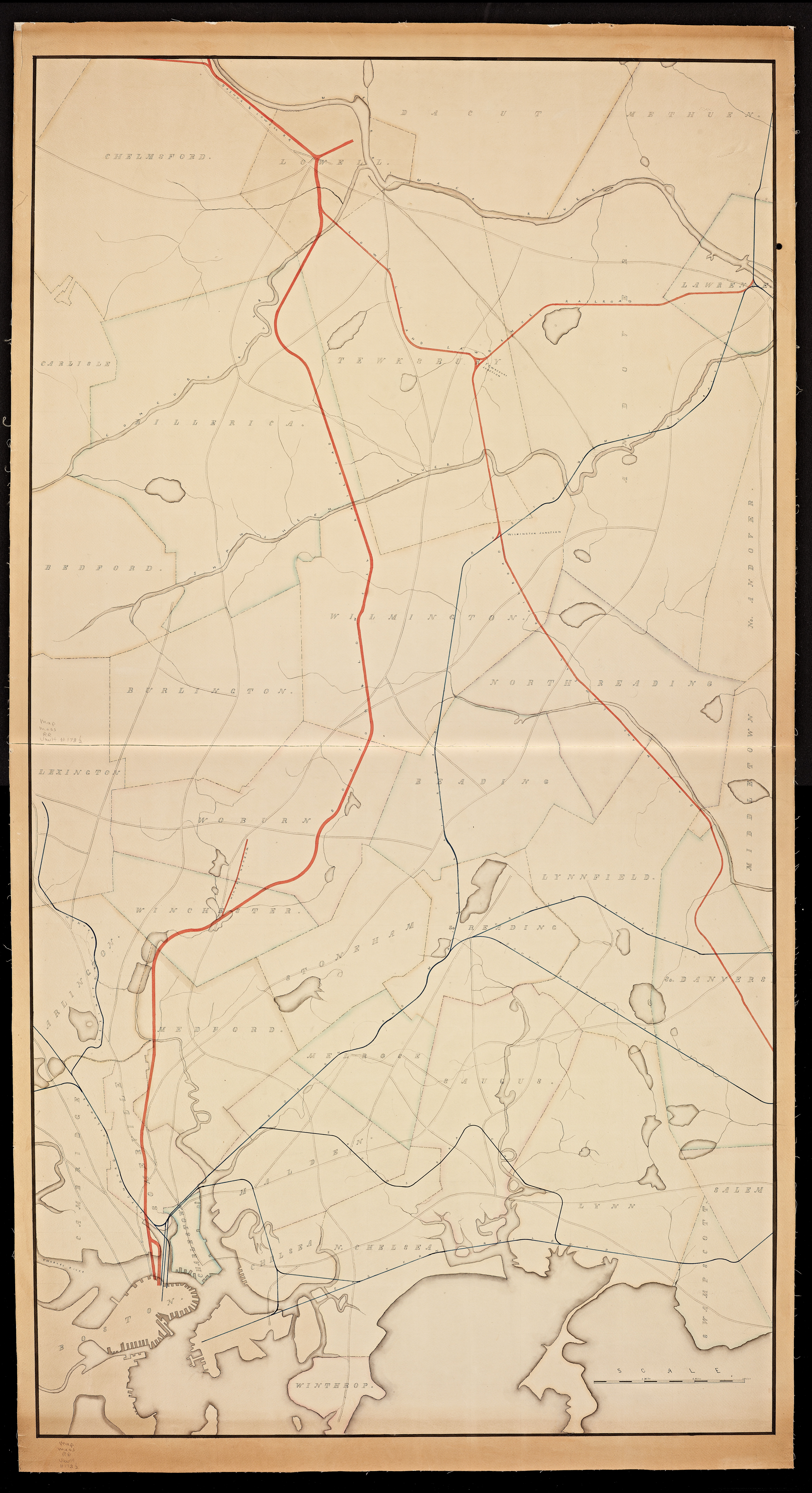 A map primarily depicting the route of the Boston & Lowell Railroad. It also shows the Lowell & Lawrence and Salem & Lowell railroads. The map is not dated, but several clues point to it being published around 1855: The 1853-built Saugus Branch does not yet have the October 1855 connection to the Eastern North Andover is separated from Andover, which took place in 1855 The Harvard Branch, operated 1849-55 is not shown The Grand Junction segment to East Boston (opened 1852) is shown, but the western segment (opened 1855, though not operated 1857-69) is not The 1854-built Horn Pond branch is not shown